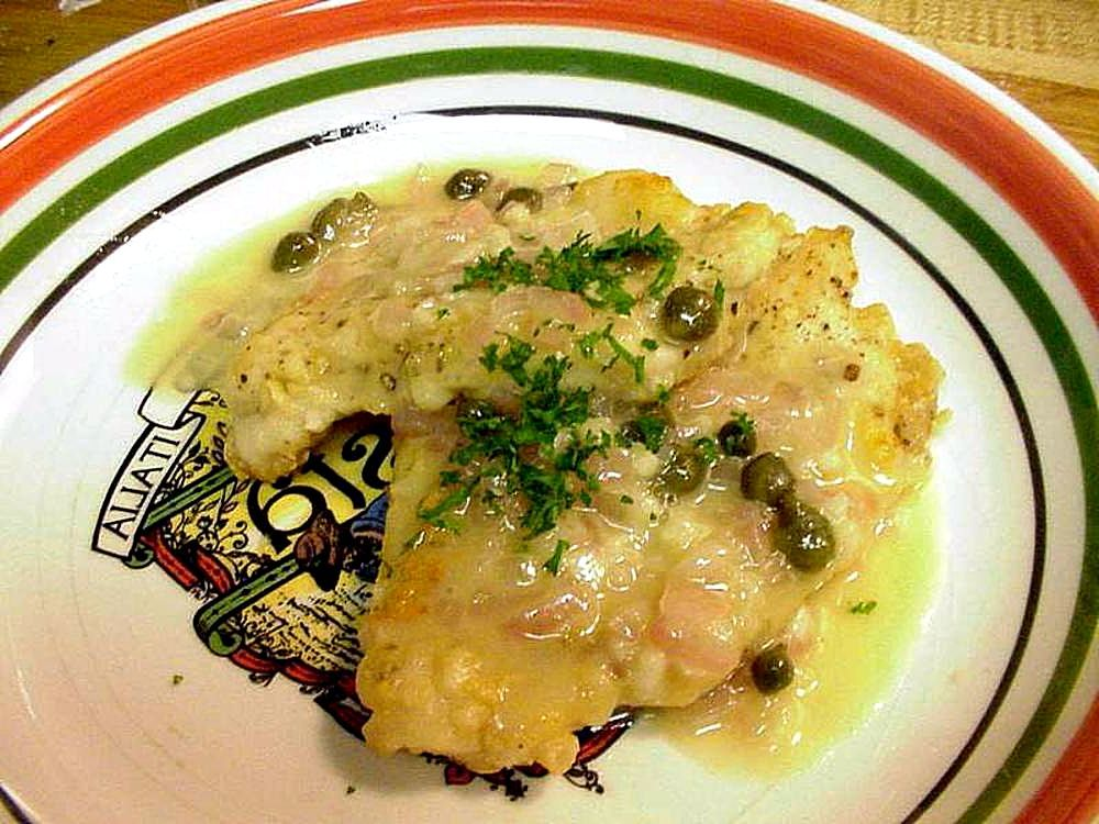 Image title: Chicken piccata dinner cooking food Image from Public domain images website